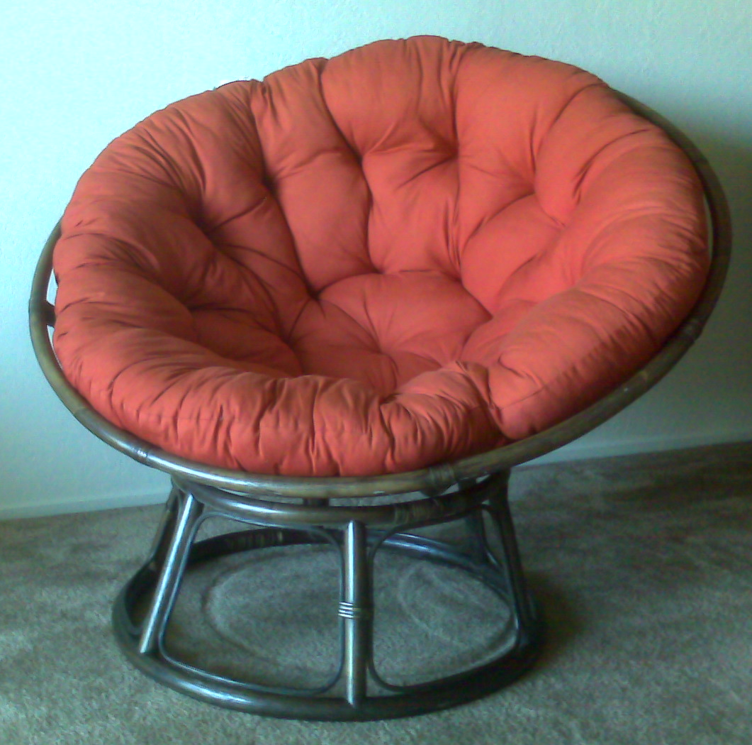 Papasan Chair, Base orientation "wide-bottom"